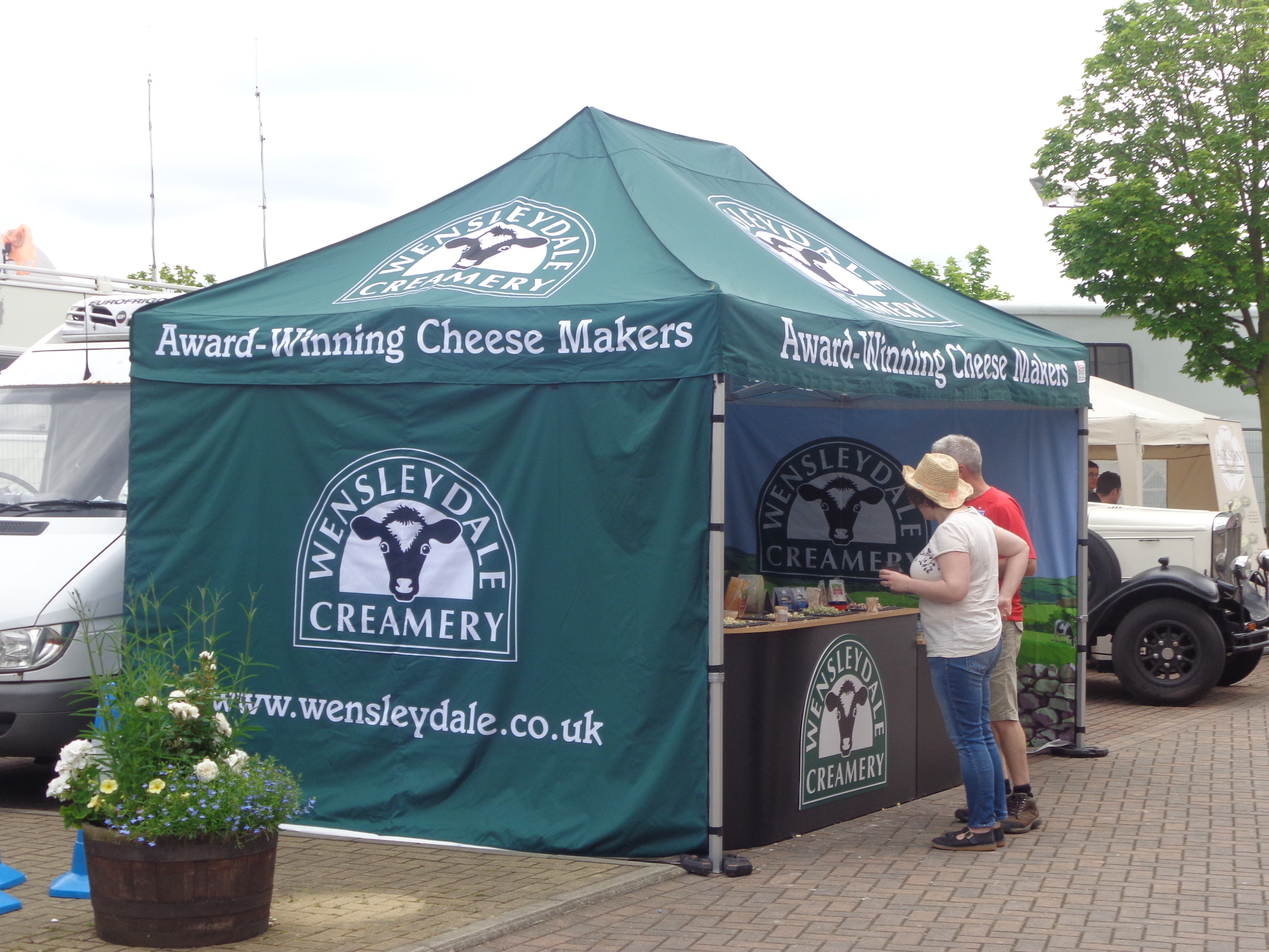 Wensleydale Creamery stall, Headingley Stadium during the second day of the England-Sri Lanka test. Taken on the afternoon of Saturday the 21st of June 2014.